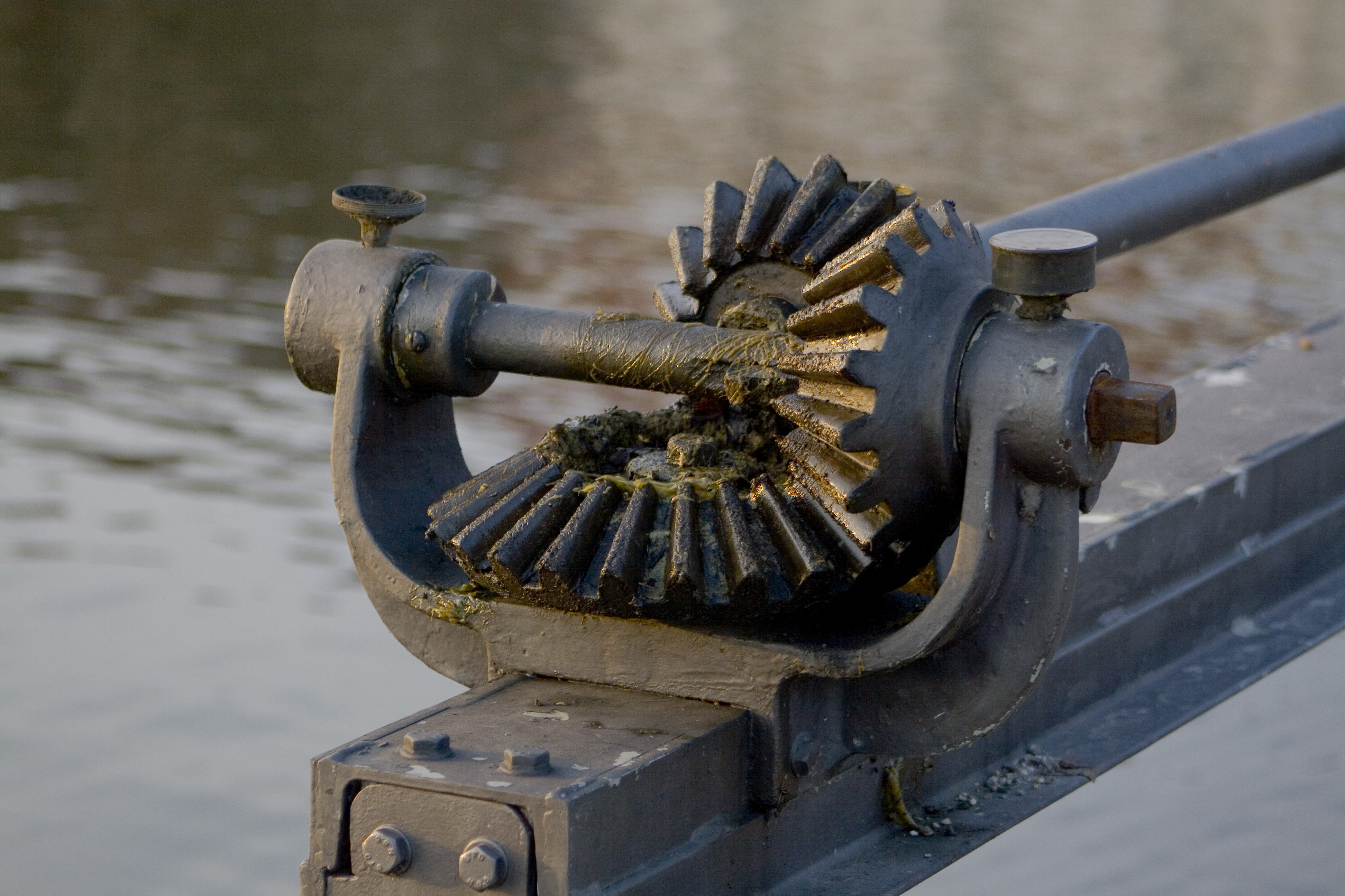 Bevel gear, Nymphenburg, Munich, Germany